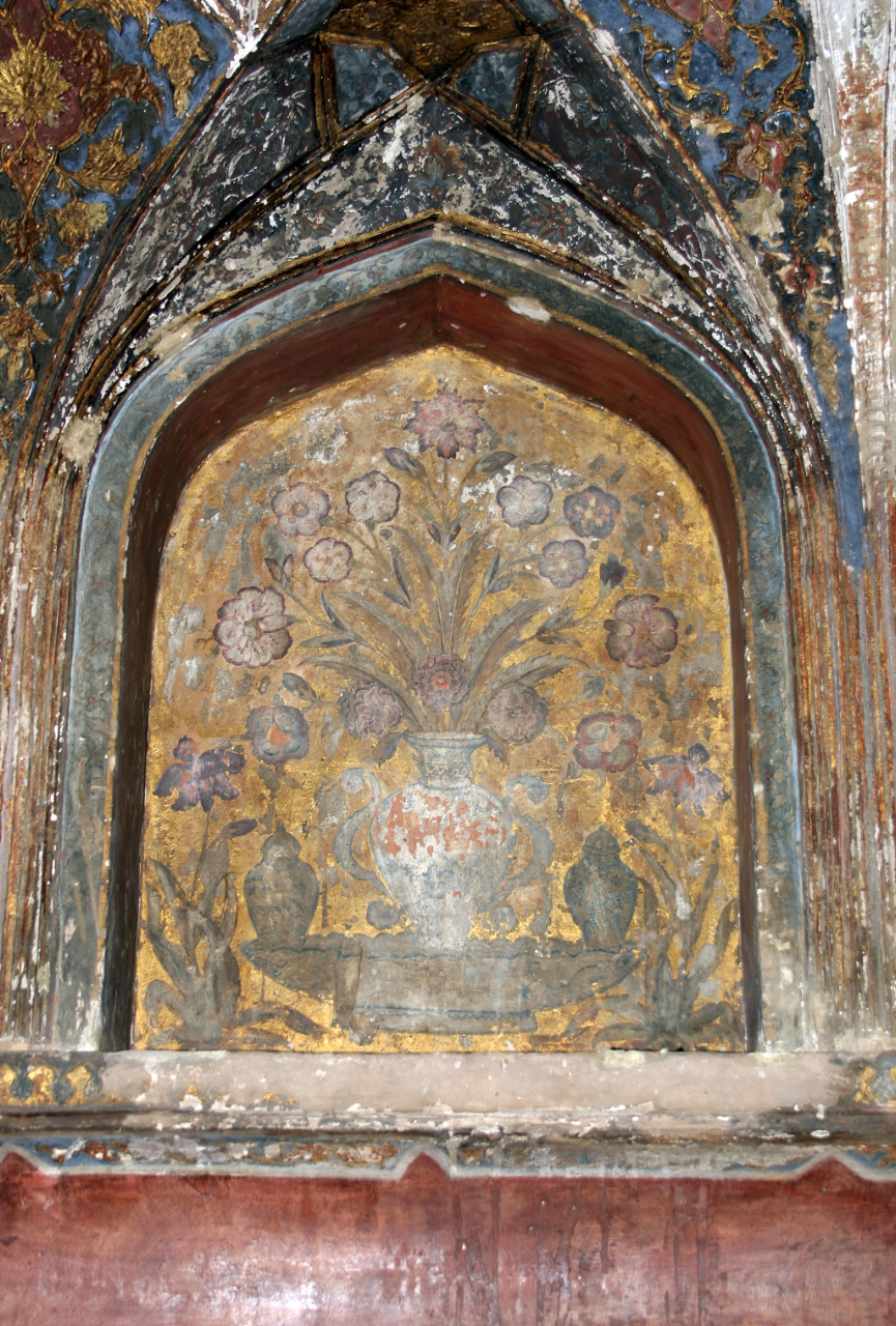 Decorative niche in Itmad-Ud-Daulah's Tomb (Baby Taj).